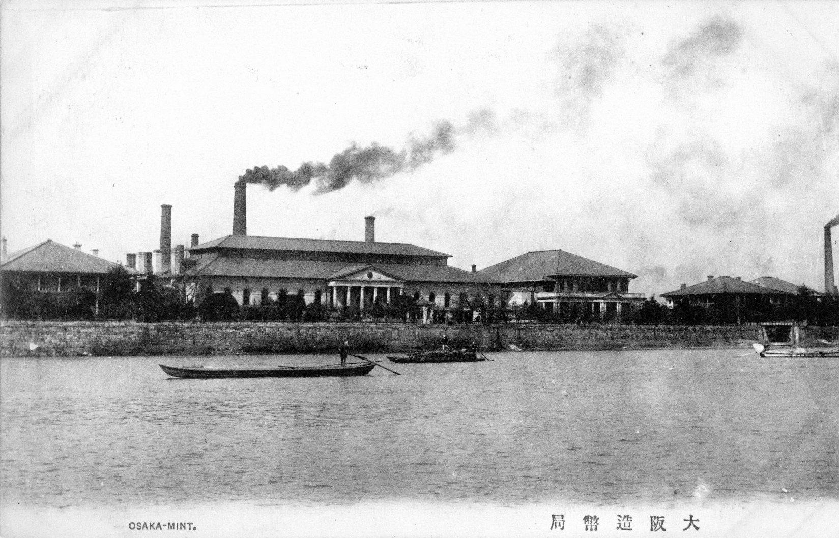 Osaka Mint, post card